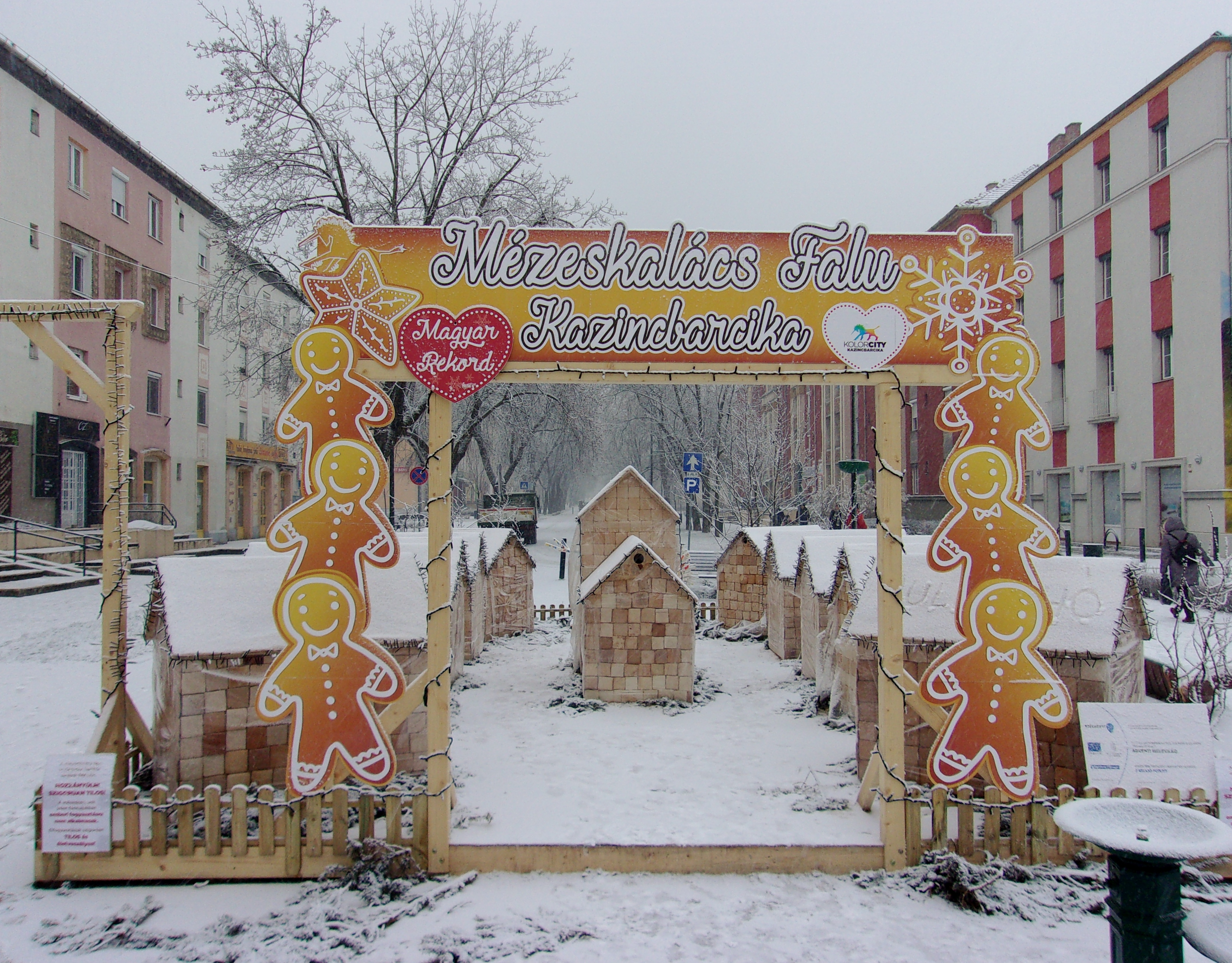 Hungary's largest gingerbread village in Kazincbarcika was built from almost five thousand gingerbread sheets. It was made for more than three weeks. It consists of ten houses and a church